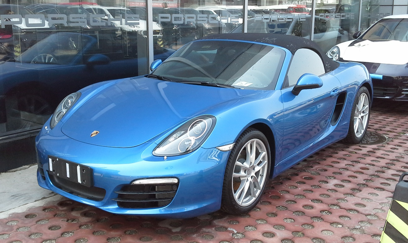 Porsche Boxster -- Type 981 -- photographed in Beijing, China.